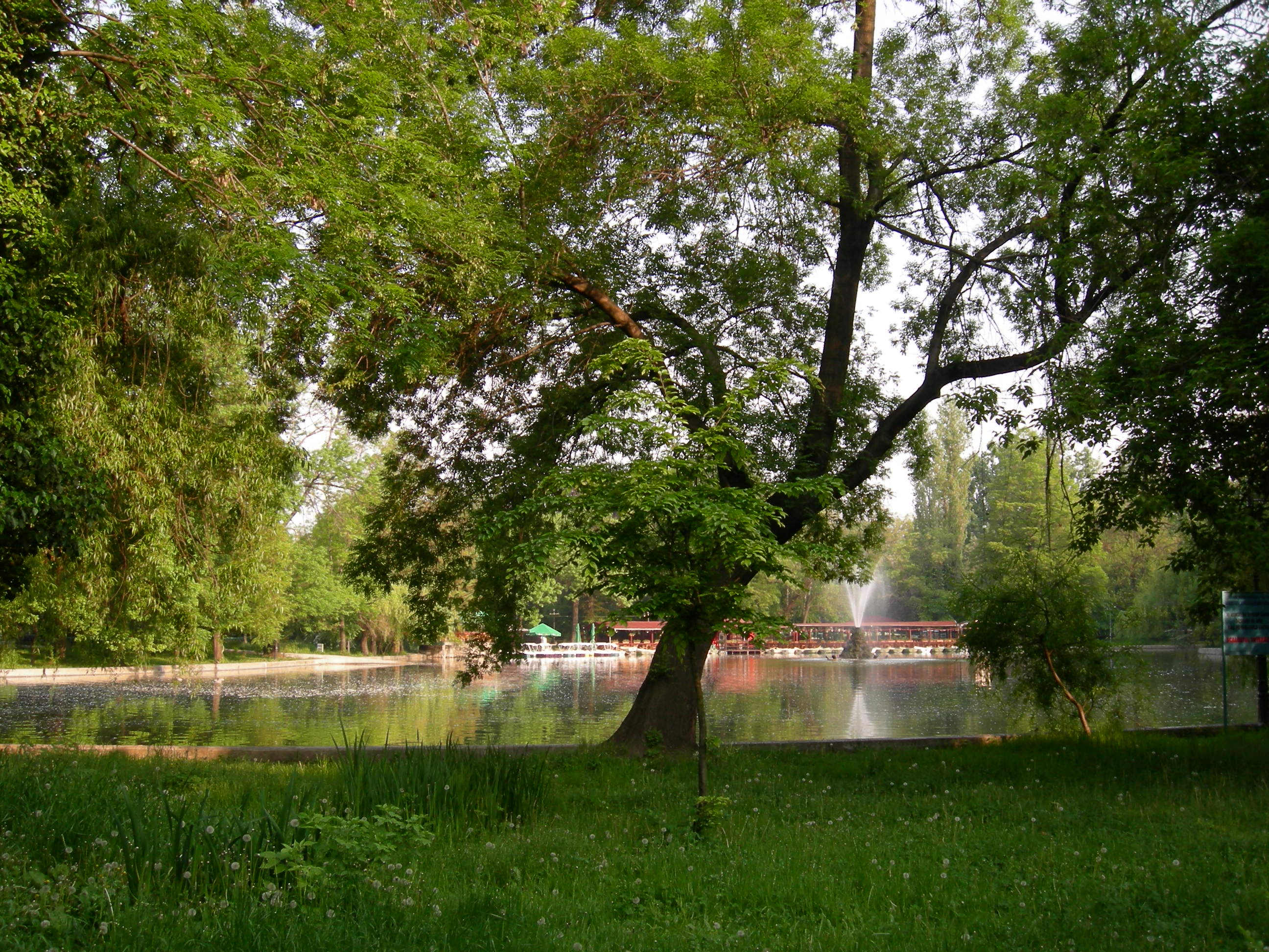 Lake, Cişmigiu Garden, Bucharest, Romania